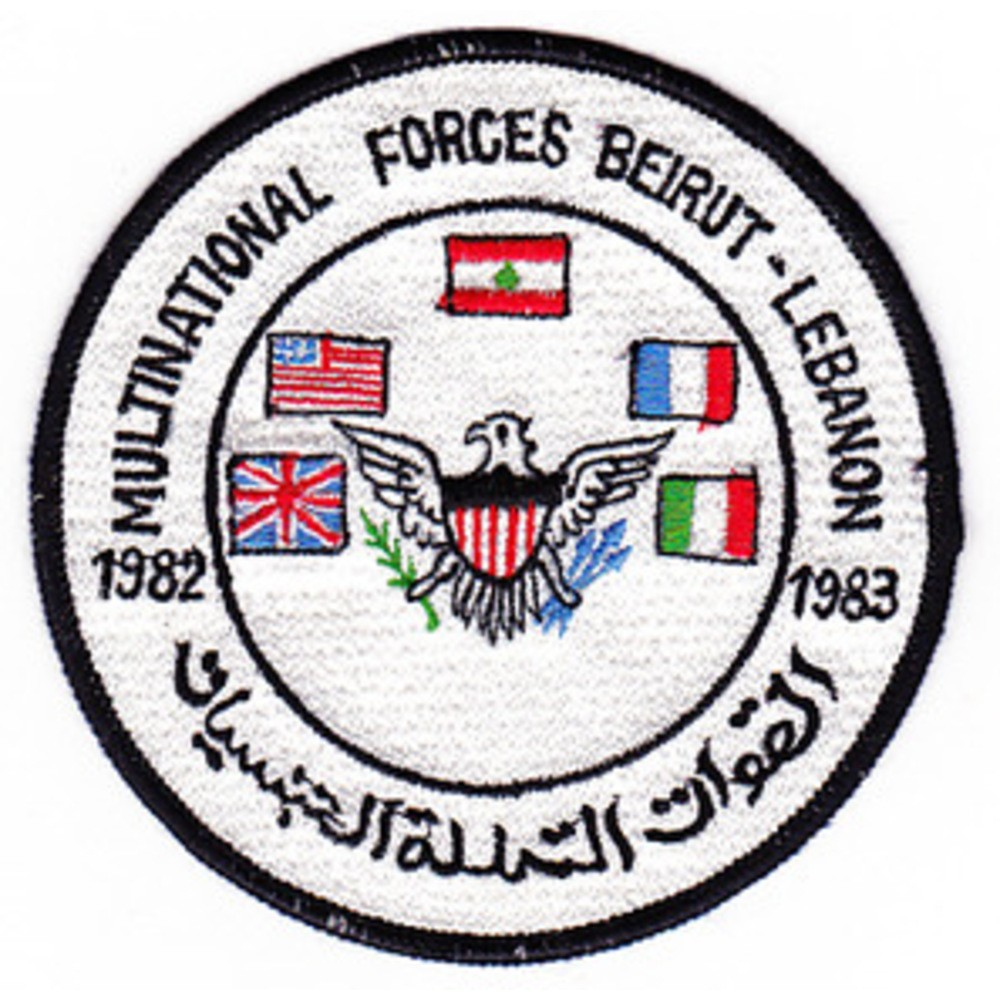 Multinational Forces Beirut-Lebanon 1982-1983 Patch